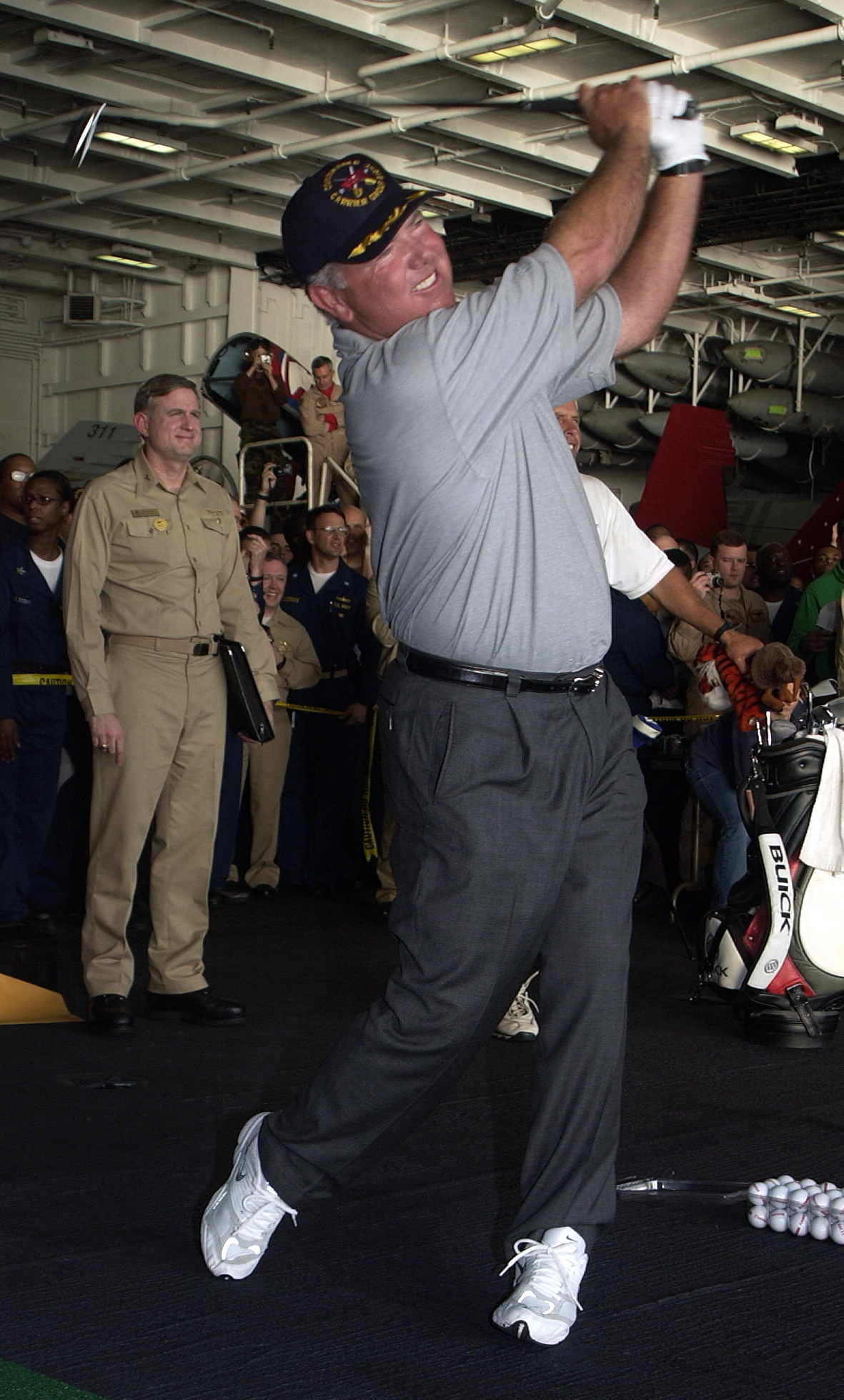 Sailors watch professional golfer Mark O'Meara hit a few golf balls during a demonstration in the hanger bay of the nuclear powered aircraft carrier USS George Washington. O'Meara, accompanied by Tiger Woods, Woods' fiancée Elin Nordegren, and caddies Steve Williams and Greg Rita visited the Norfolk, Va. Based carrier in the Arabian Gulf before participating in the European PGA Tour’s Dubai Desert Classic the following day. The George Washington Carrier Strike Group (CSG) and Carrier Air Wing Seven (CVW-7) were deployed to the Arabian Gulf in support of Operations Iraqi and Enduring Freedom.